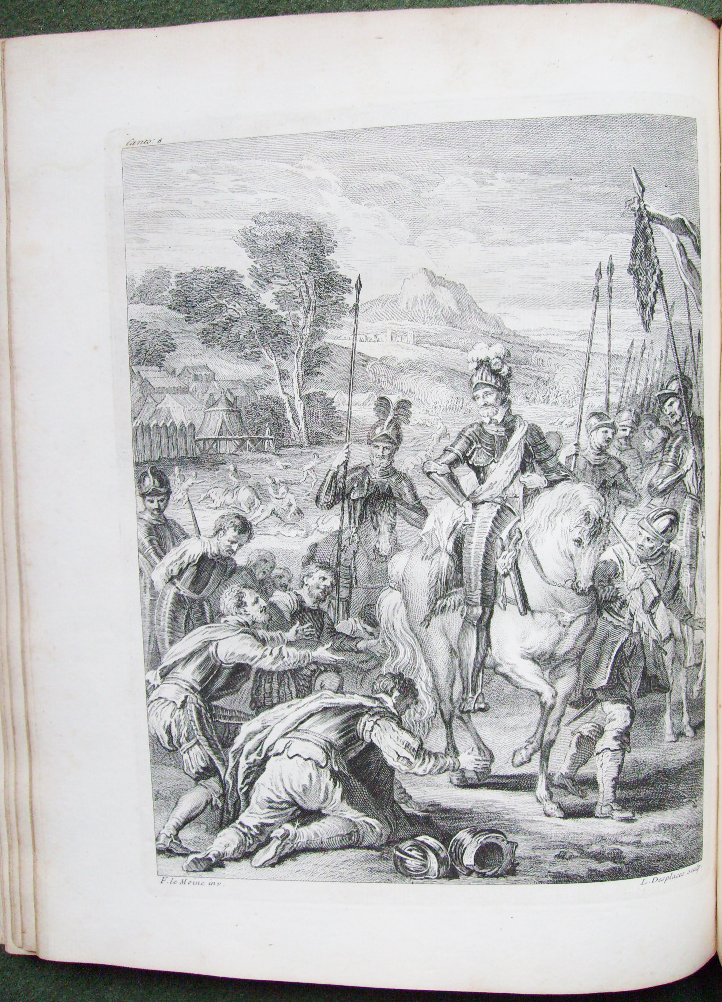 La Henriade de Voltaire à Londres en 1728